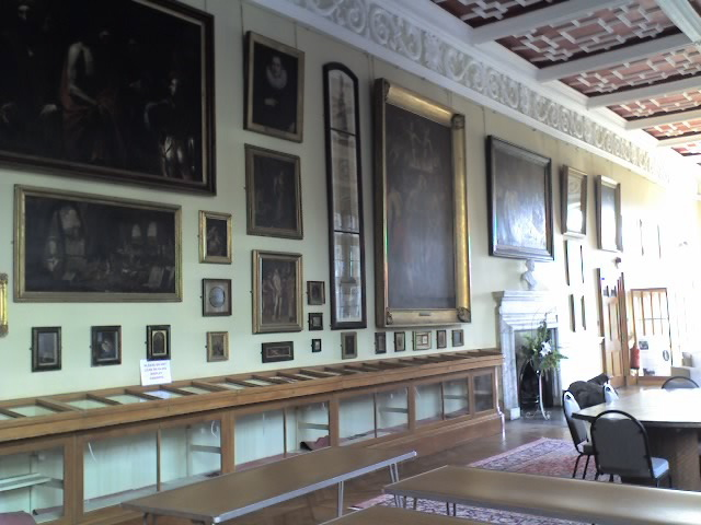 Long Room, Stonyhurst College